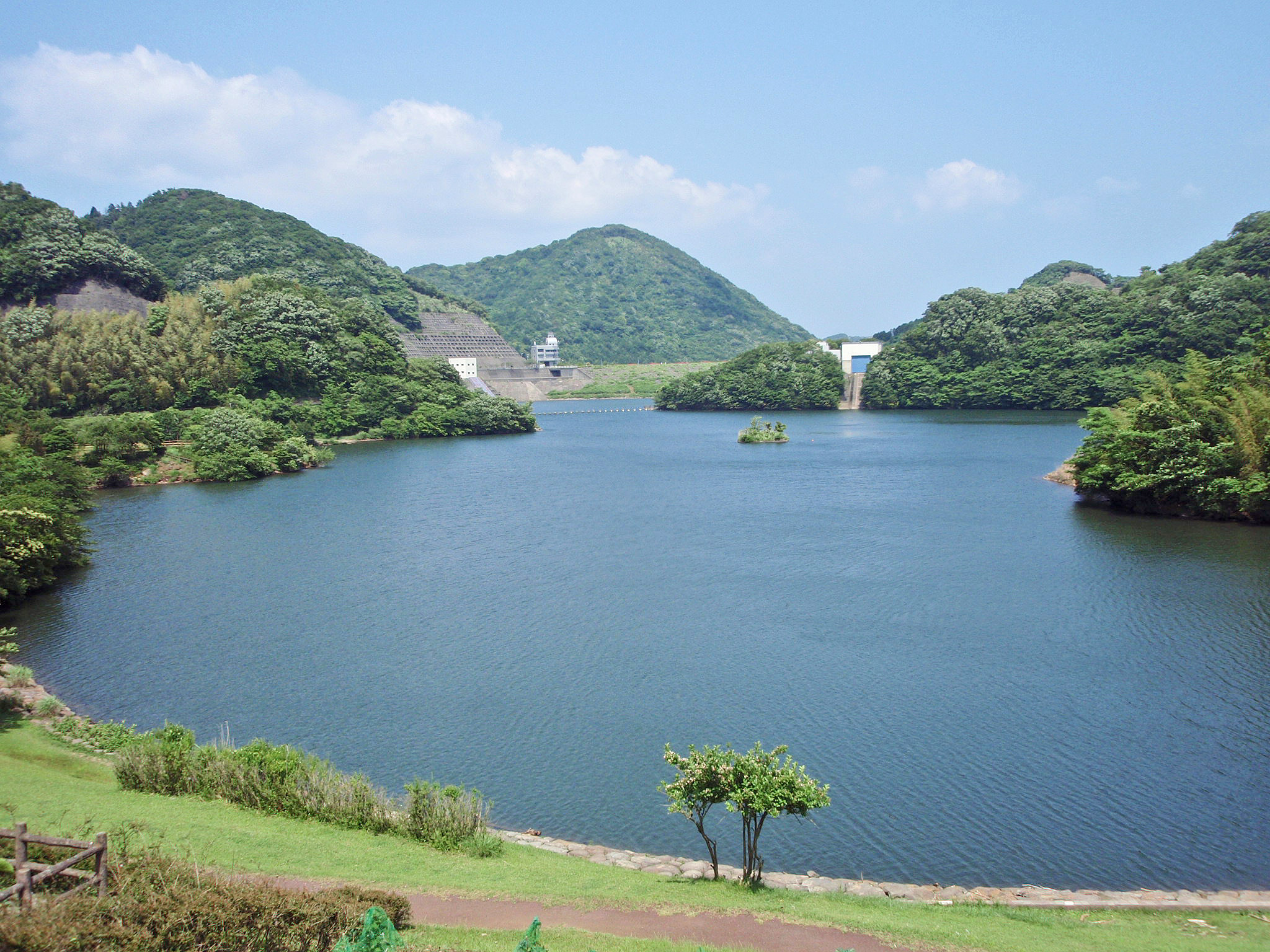 Okuno Dam and Lake Matsukawa in Ito, Shizuoka Prefecture, Japan.